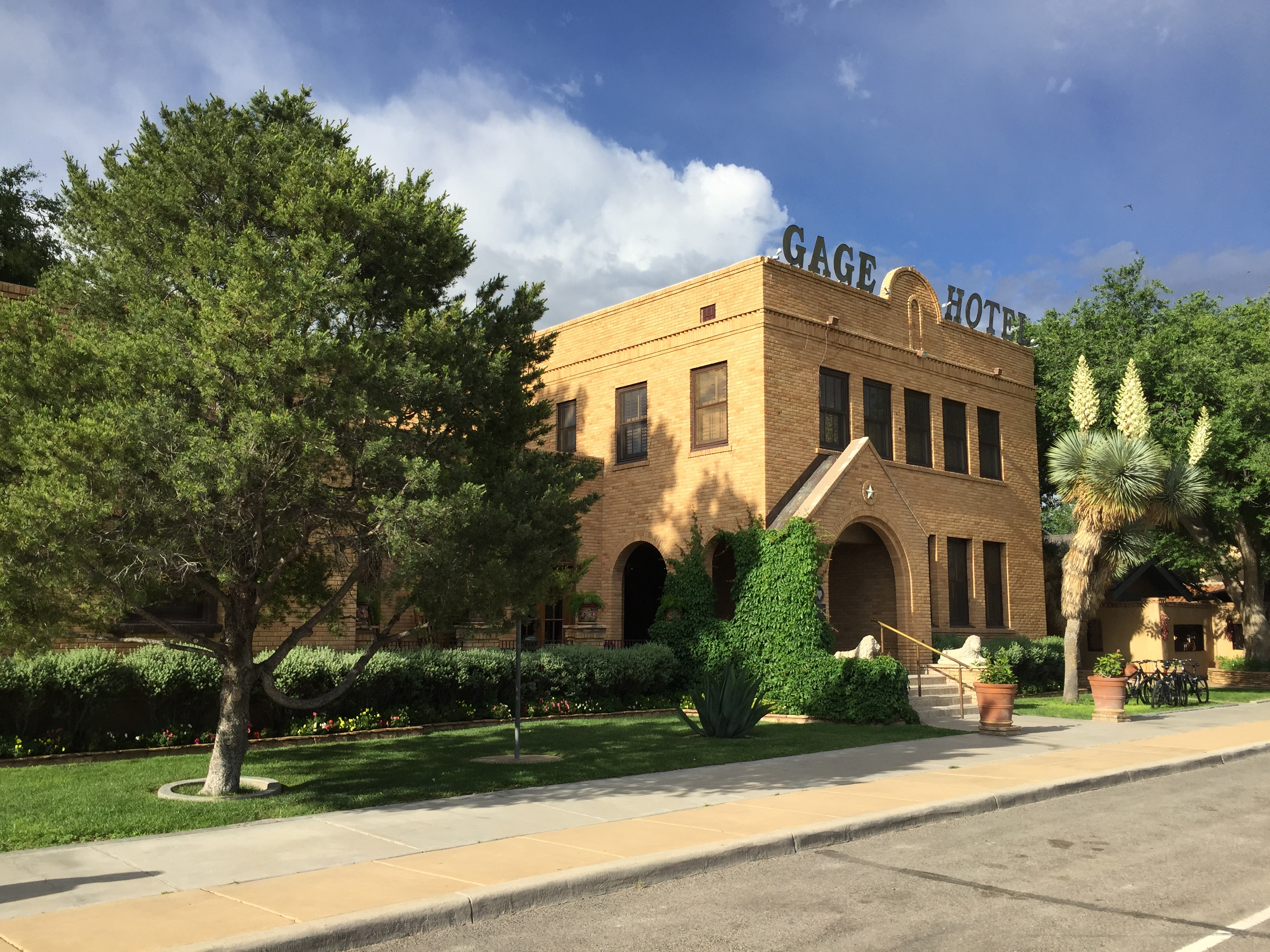 The Gage Hotel in downtown Marathon, Texas